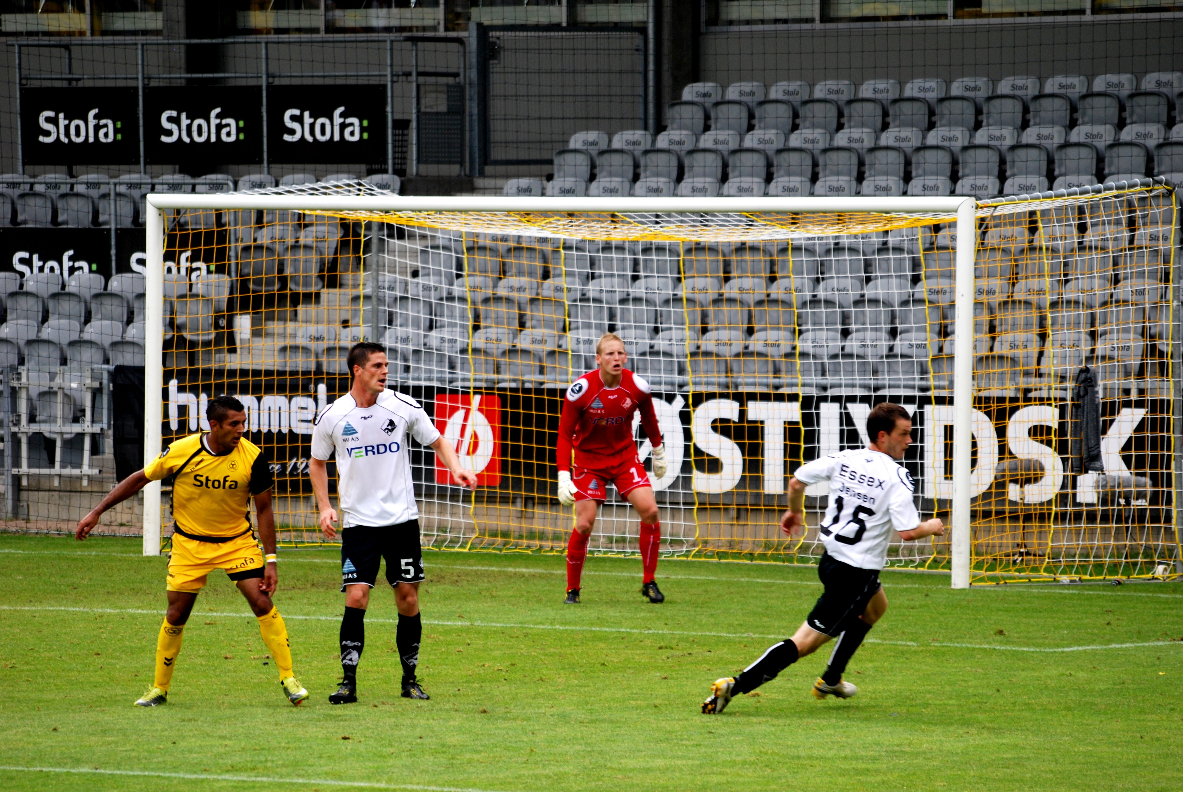 The football teams AC Horsens and Randers FC in Casa Arena Horsens